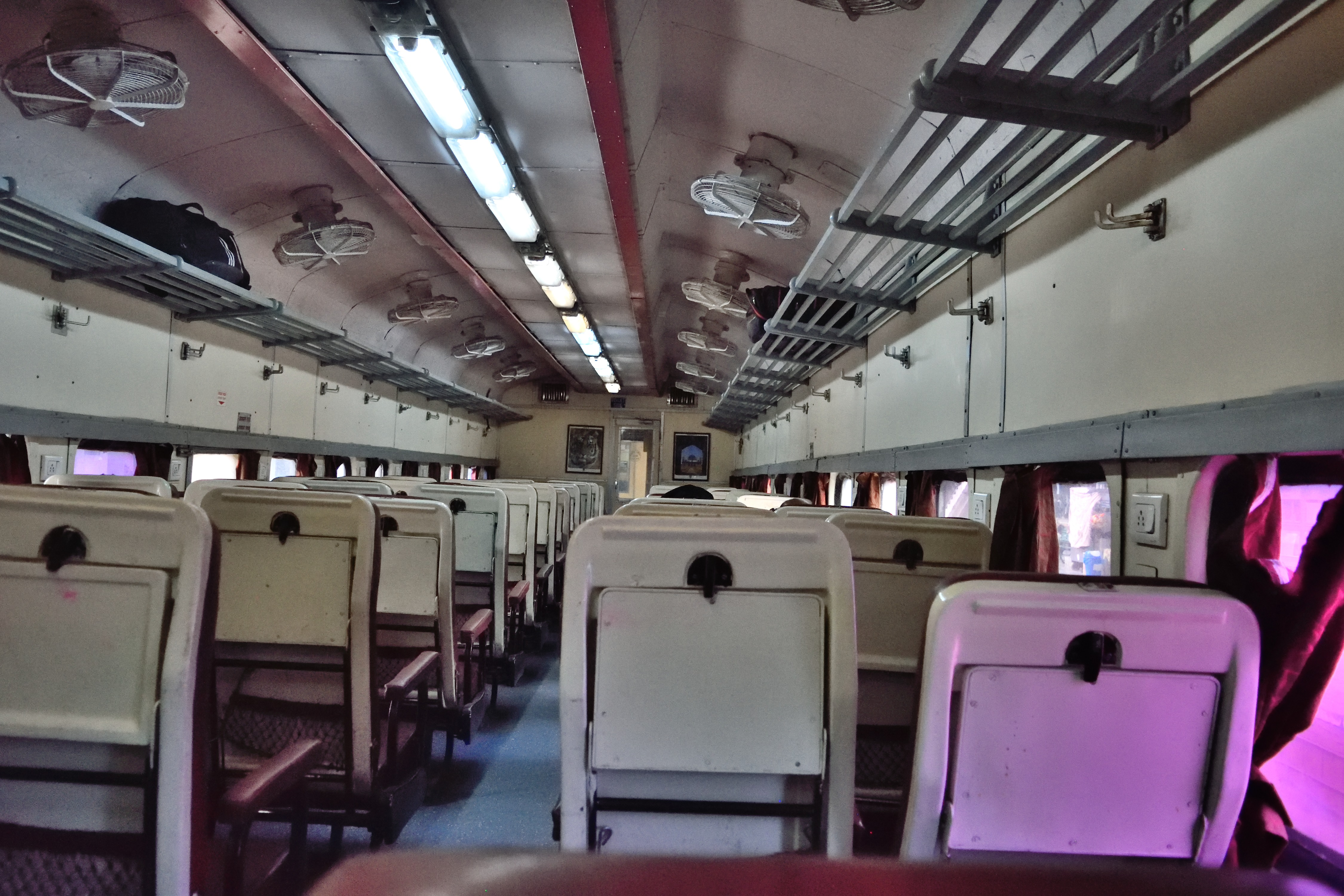 Interiors of Ludhiana - New Delhi Shatabdi